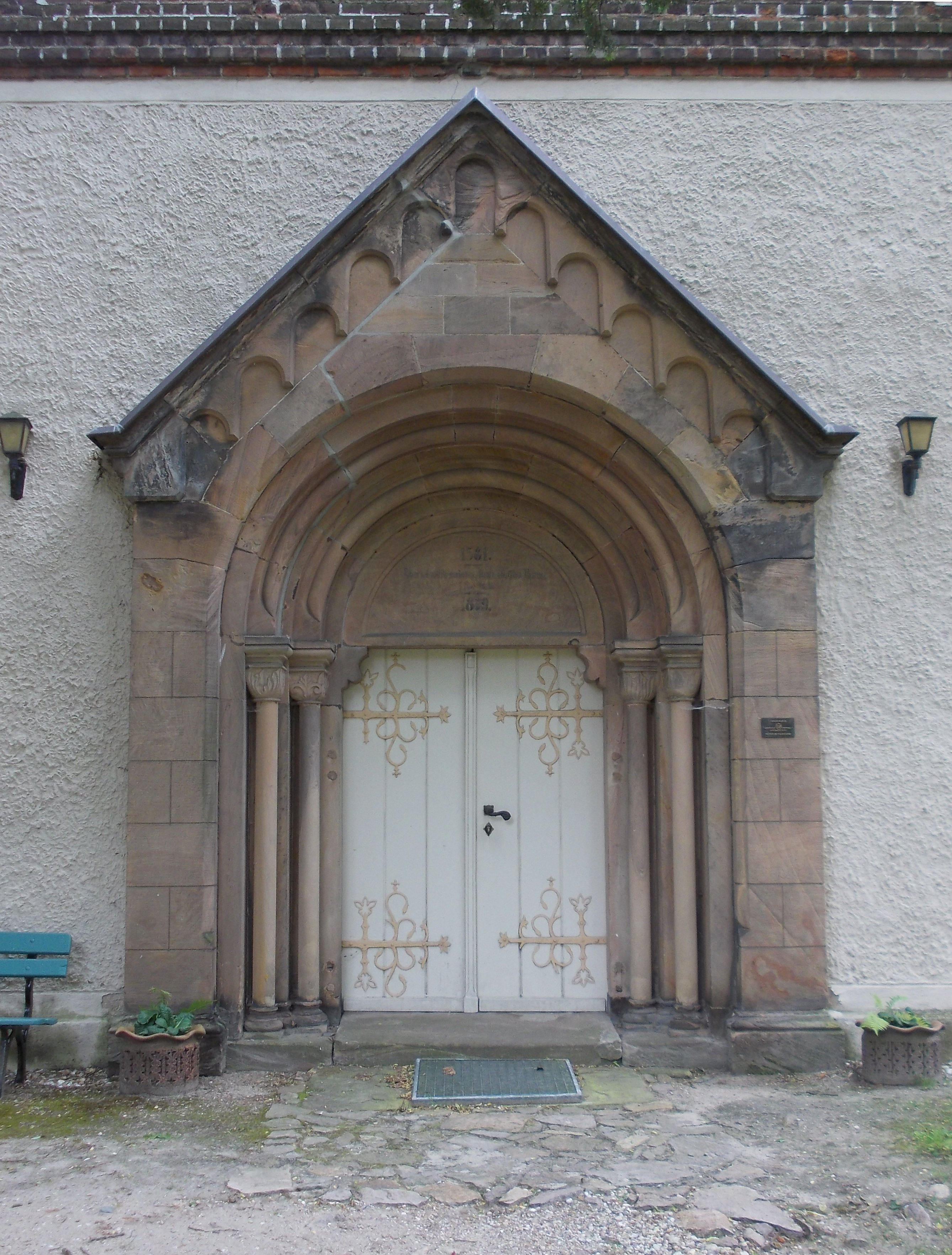 North portal of Spören church (Zörbig, Anhalt-Bitterfeld district, Saxony-Anhalt)